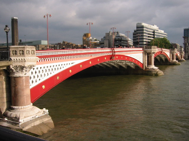 Blackfriars Bridge, EC4. Built 1860-9.